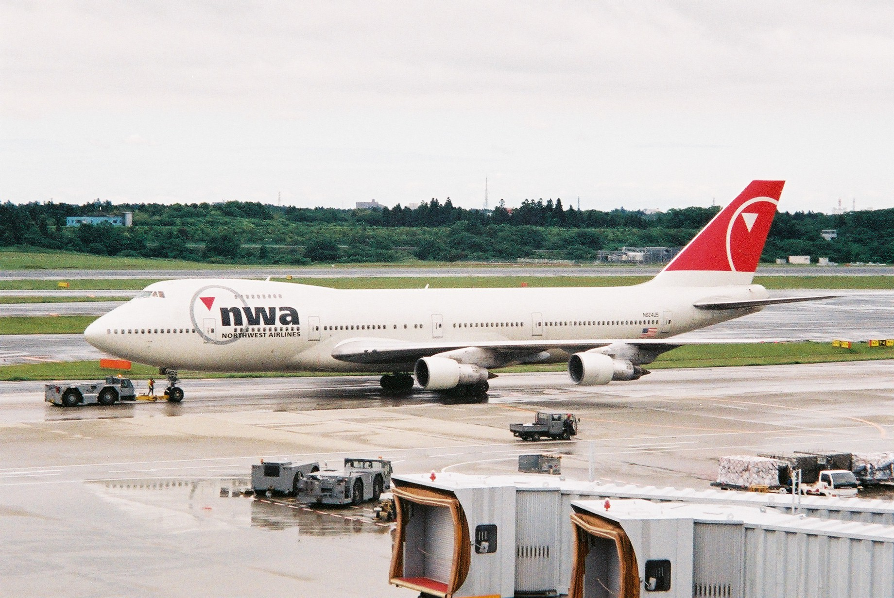 Northwest Airlines Boeing747-251B(N624US) at Narita International Airport on 2004/05/25. Photo by Cassiopeia_sweet.